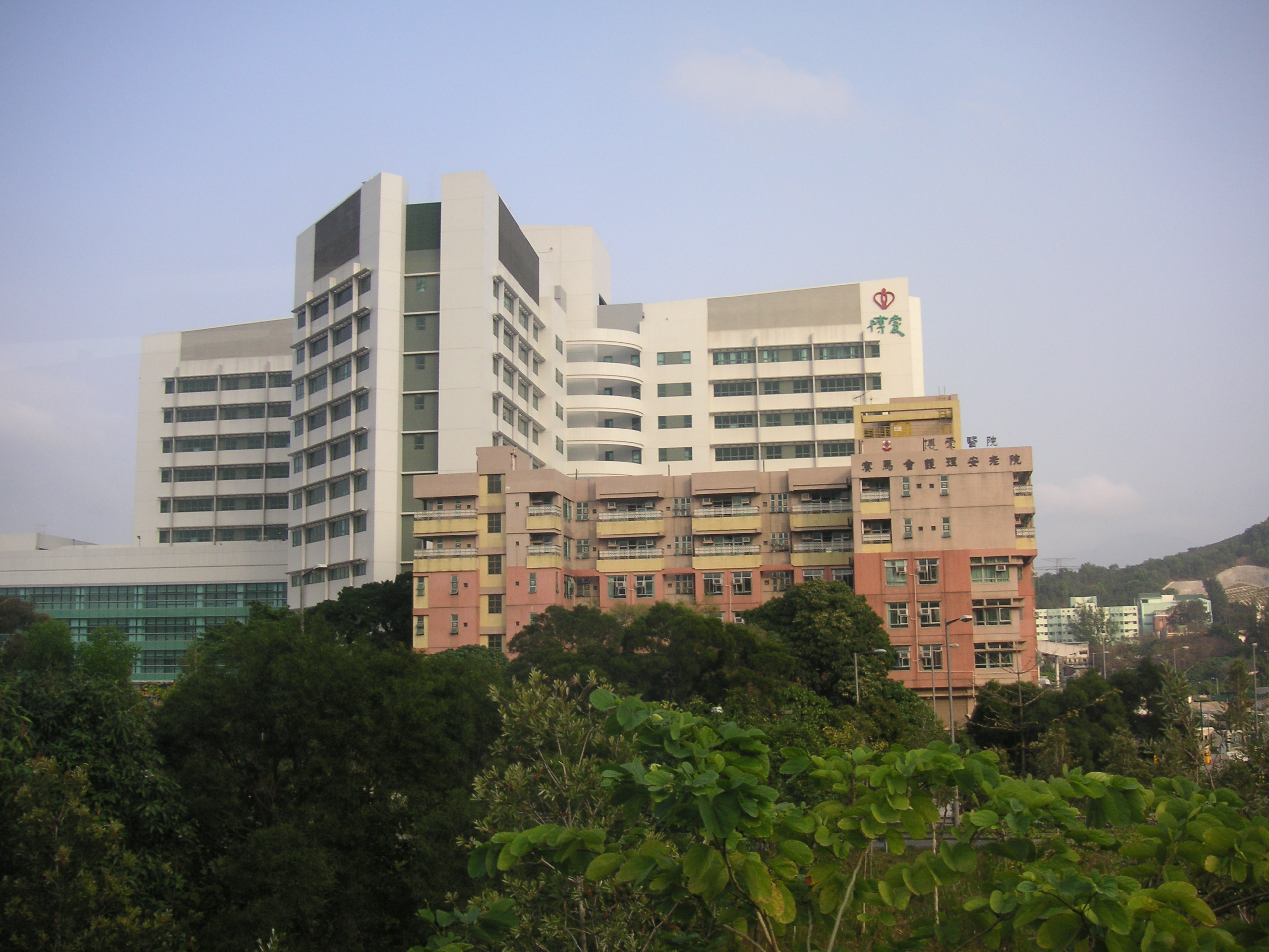 Pok Oi Hospital in Au Tau near Yuen Long Photograph by User:HenryLi